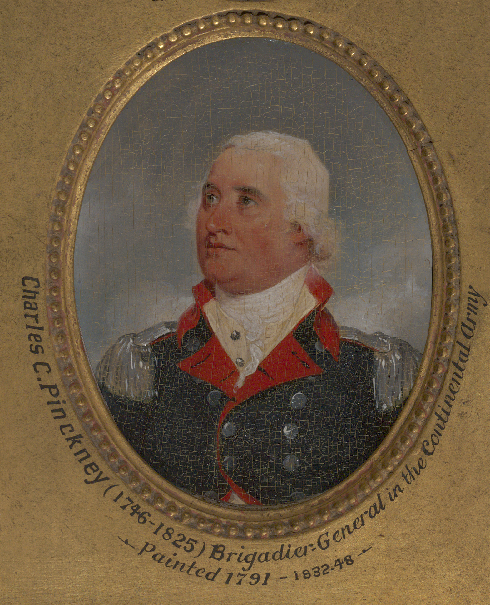 Miniature of Charles Cotesworth Pinckney by John Trumbull.